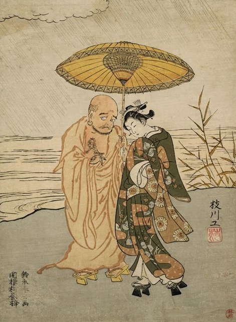 Daruma and a Young Woman in the Rain, woodblock print by Suzuki Harunobu, 1765, Clarence Buckingham Collection